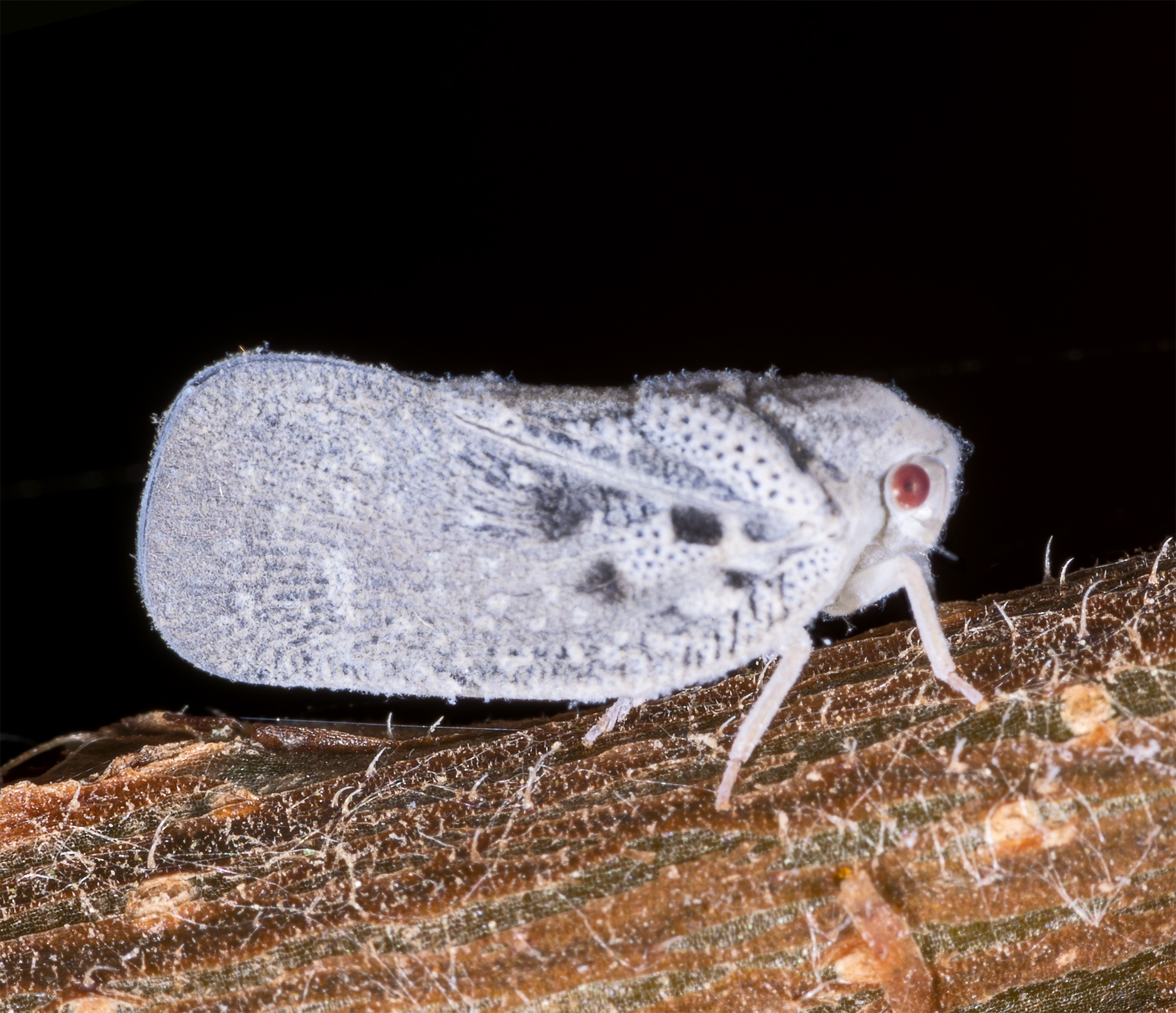 Flatid Planthopper, Size 7mm